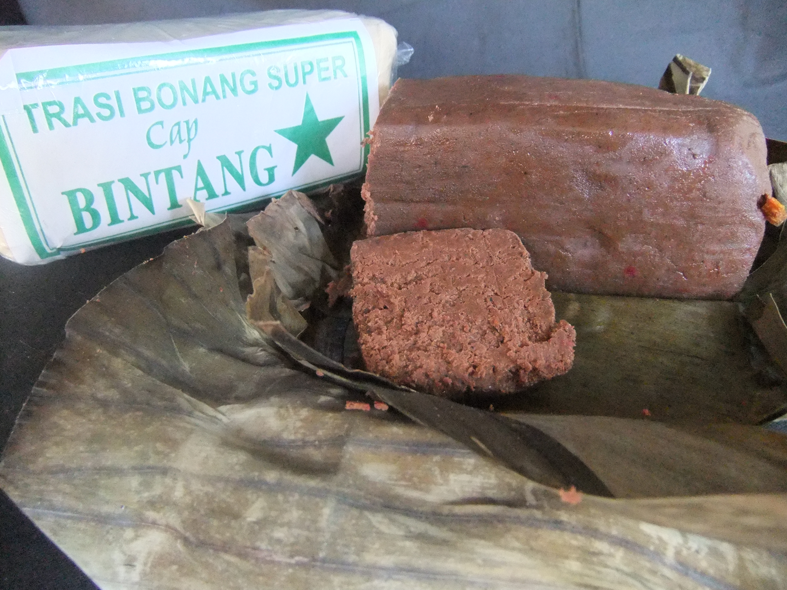 Shrimp paste of Indonesia.